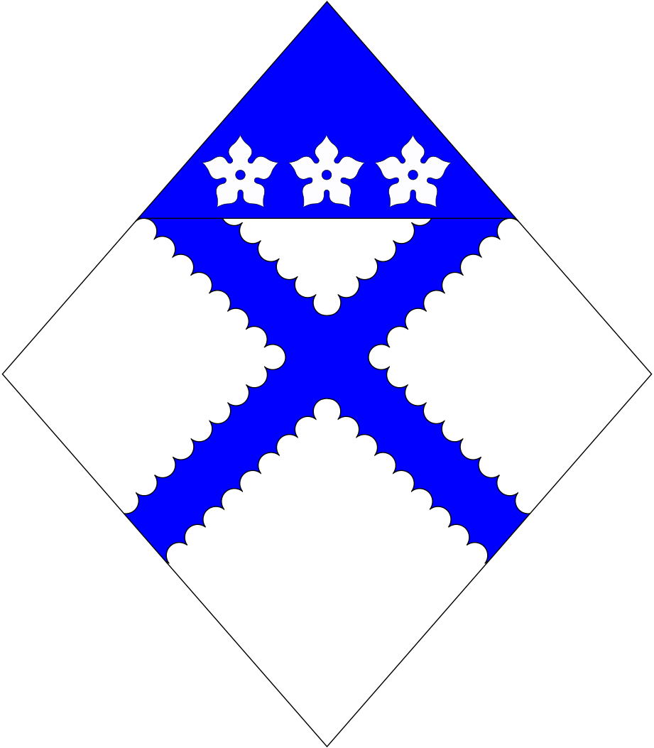 Arms of Elizabeth Hardwick (Elizabeth Talbot, Countess of Shrewsbury, known as "Bess of Hardwick", née Elizabeth Hardwick) (c. 1527–1608), of Hardwick Hall, Derbyshire, as displayed on plaster overmantle in great hall of Hardwick Hall.[1] Lozenge-shaped shied as appropriate for a female armiger. Blazon: Argent, a saltire engrailed azure on a chief of the second three cinquefoils of the first